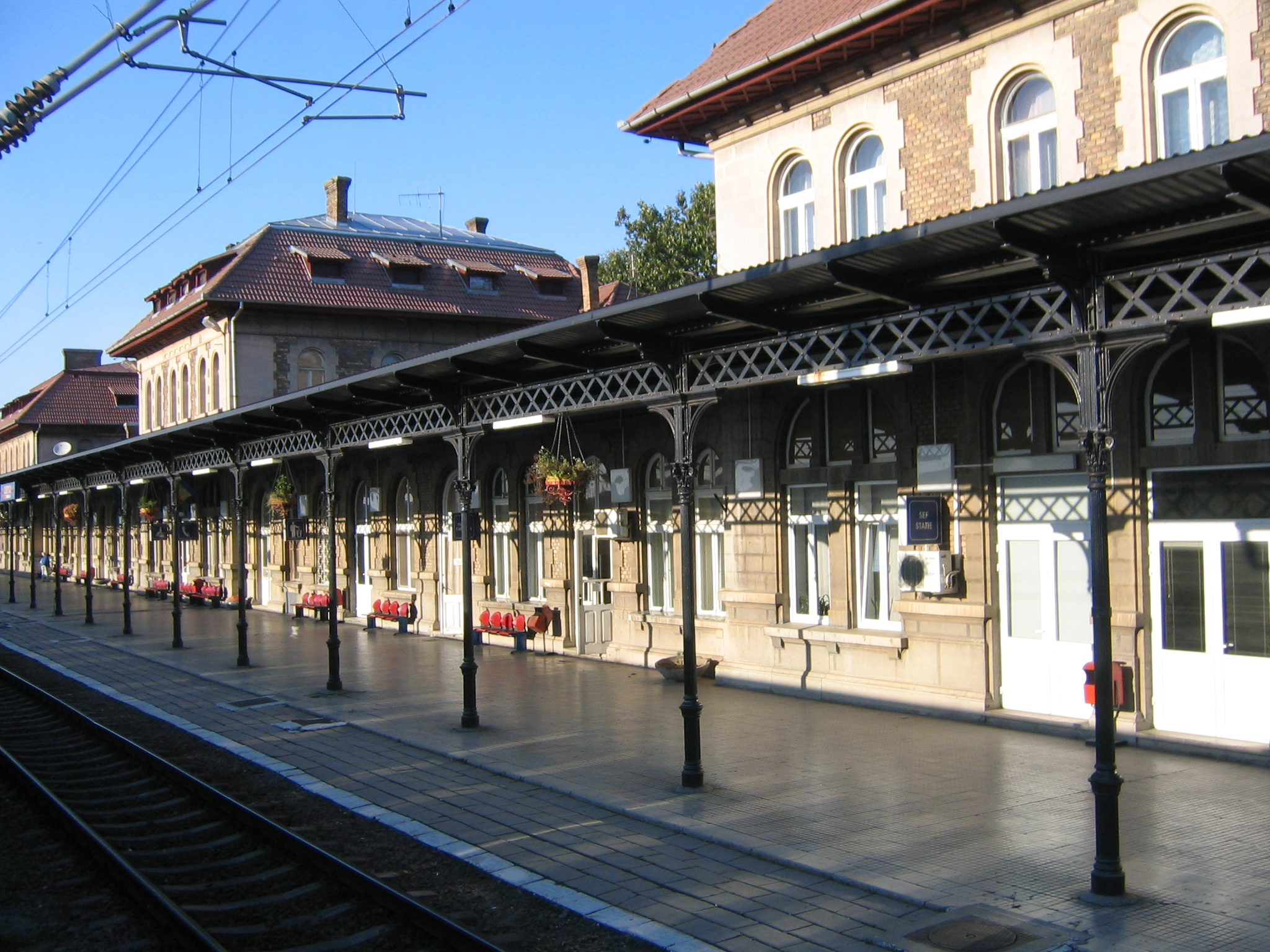 Curtici train station.